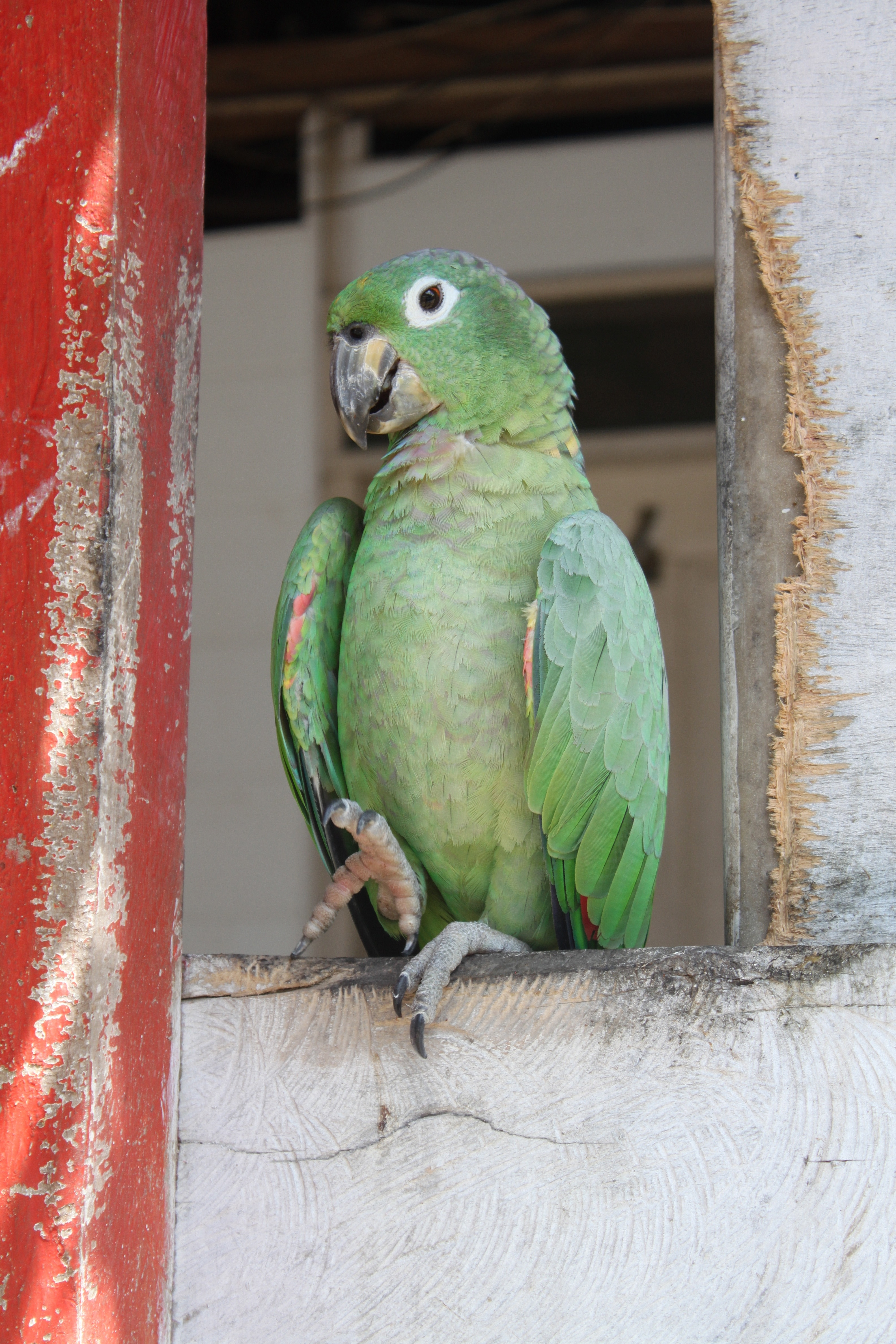 A Mealy Amazon in Isla Santa Rosa, Loreto Region, Peru.